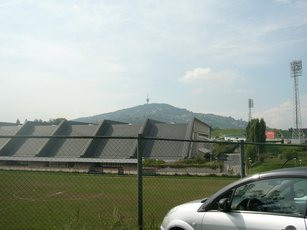 On the way to Kosevo Stadium